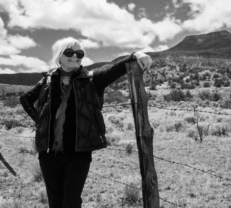 Artist Ciel Bergman